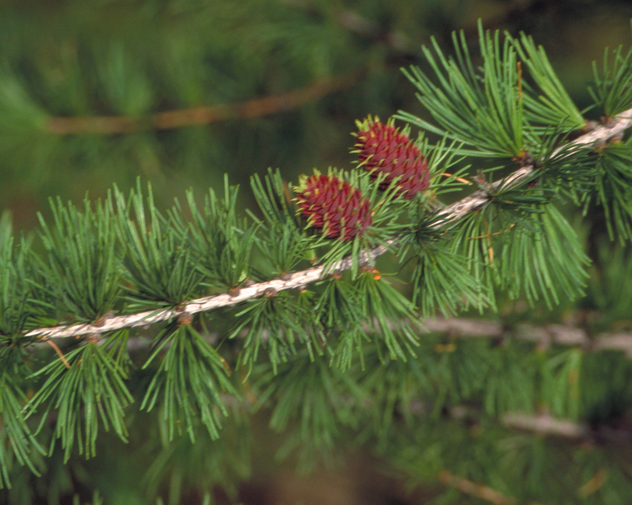 Larix occidentalis foliage and young cones, Idaho, USA